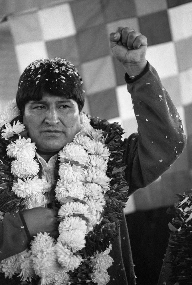 Bolivian president Evo Morales, wearing a necklace of flowers and coca leaves, lifts his left fist after being re-elected leader of the Six Federations of the Cochabamba Tropics, a post he has held since 1988, in Cochabamba, Bolivia, February 14 2006. Photographer: Jorge Uzon